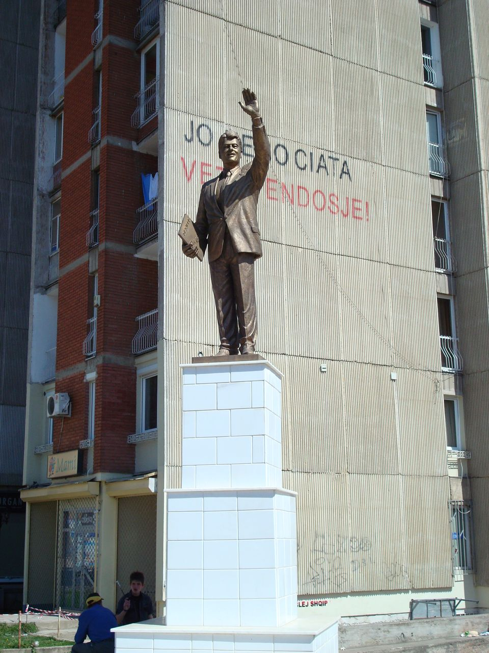 Statue of Bill Clinton in Pristina/Kosovo